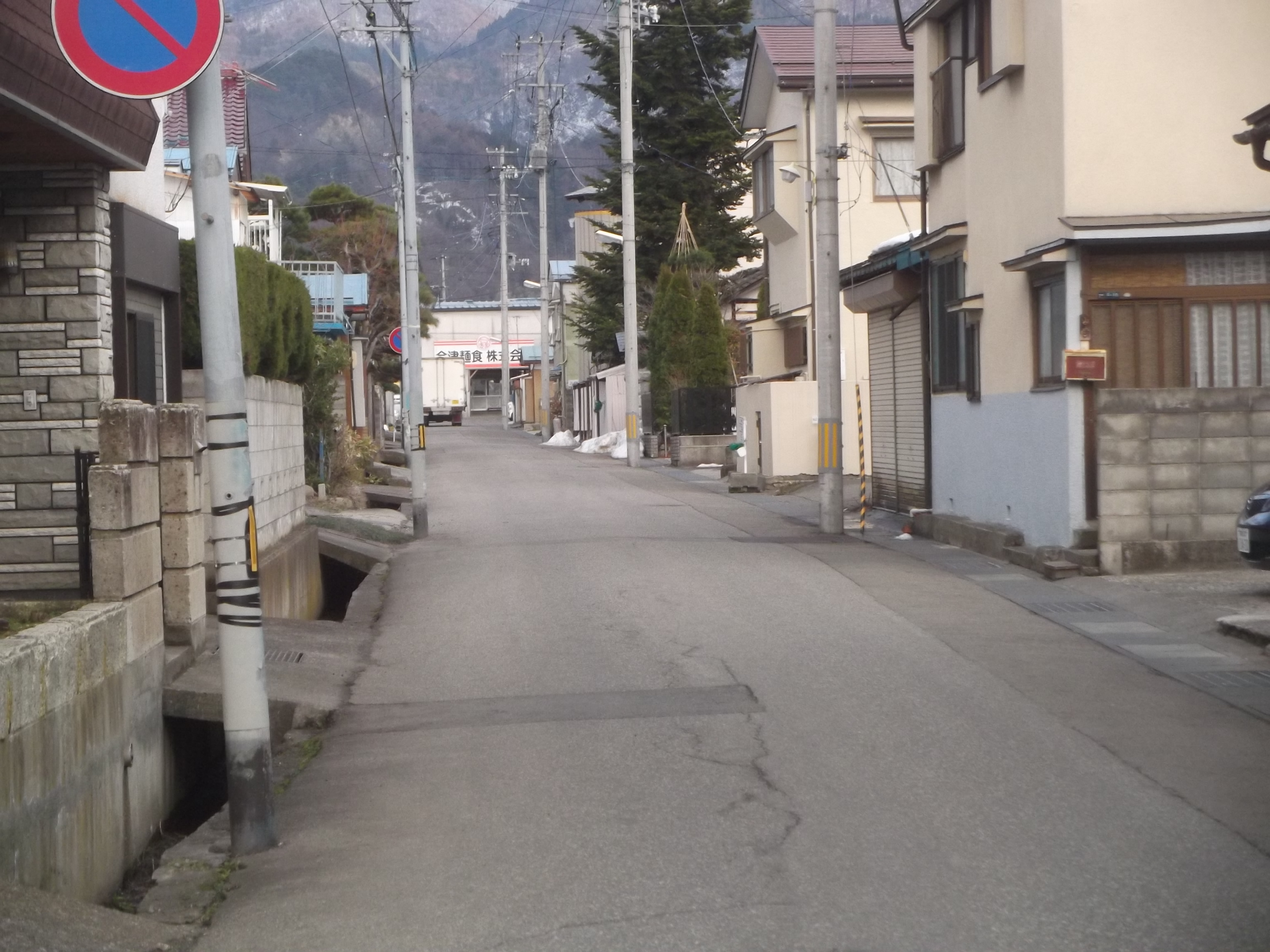 Lanscape of Yashikimachi, Aizuwakamatsu, Fukushima.